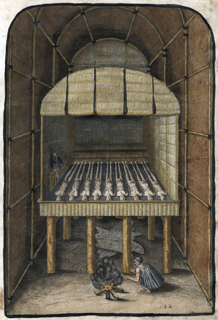 De Bry’s engraving, “The Tombe of their Werovvans or Cheiff Lordes,” was originally published as an illustration in Thomas Hariot’s 1588 book A Briefe and True Report of the New Found Land of Virginia.